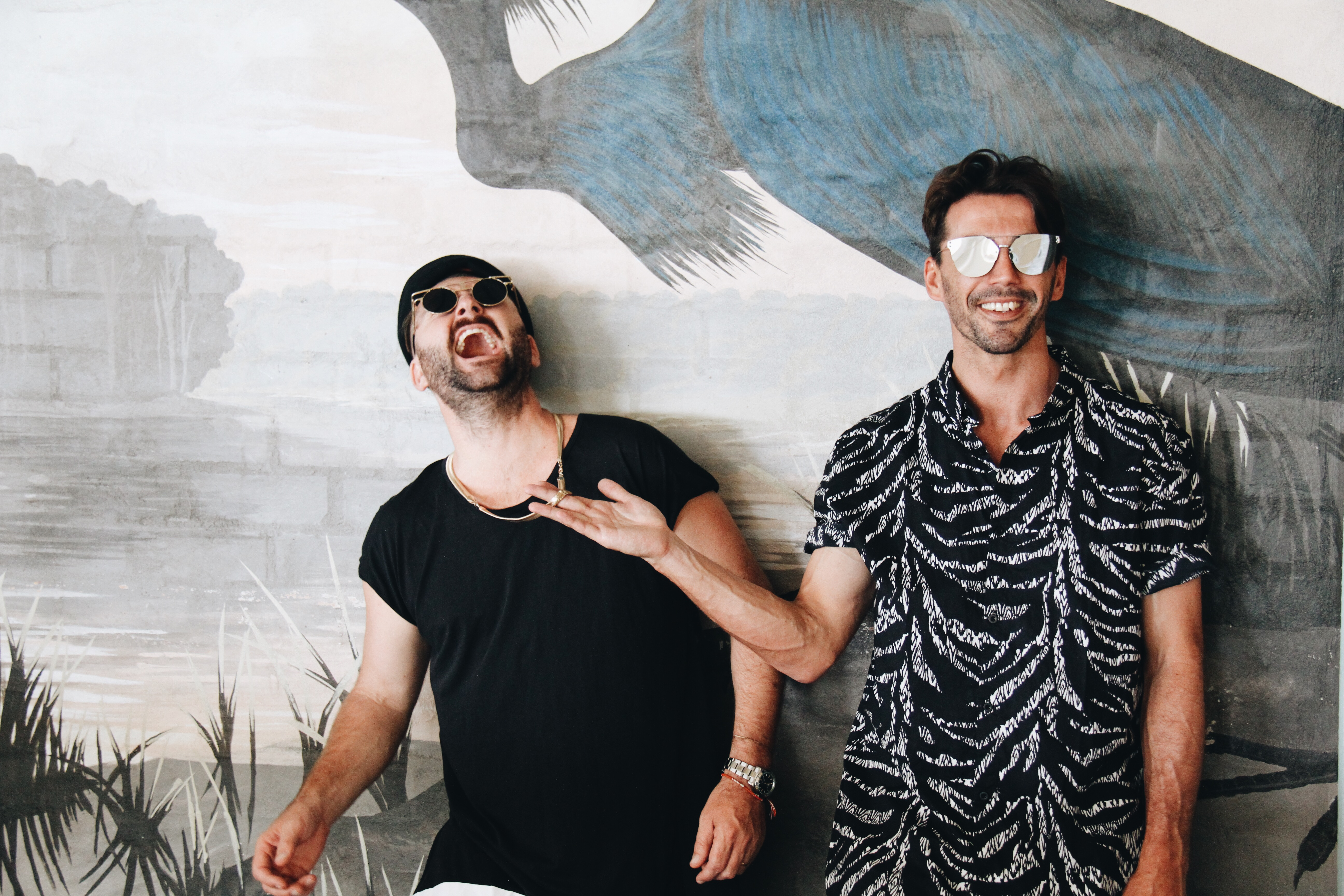 Andrew "Andy" Stanley and Matthew "Matt" Handley in a press photo.